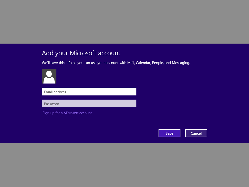 Windows 8 showing Microsoft account dialog